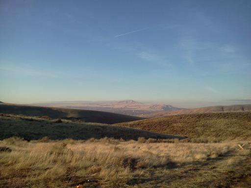 Benton City, Washington, from the Horse Heaven Hills.